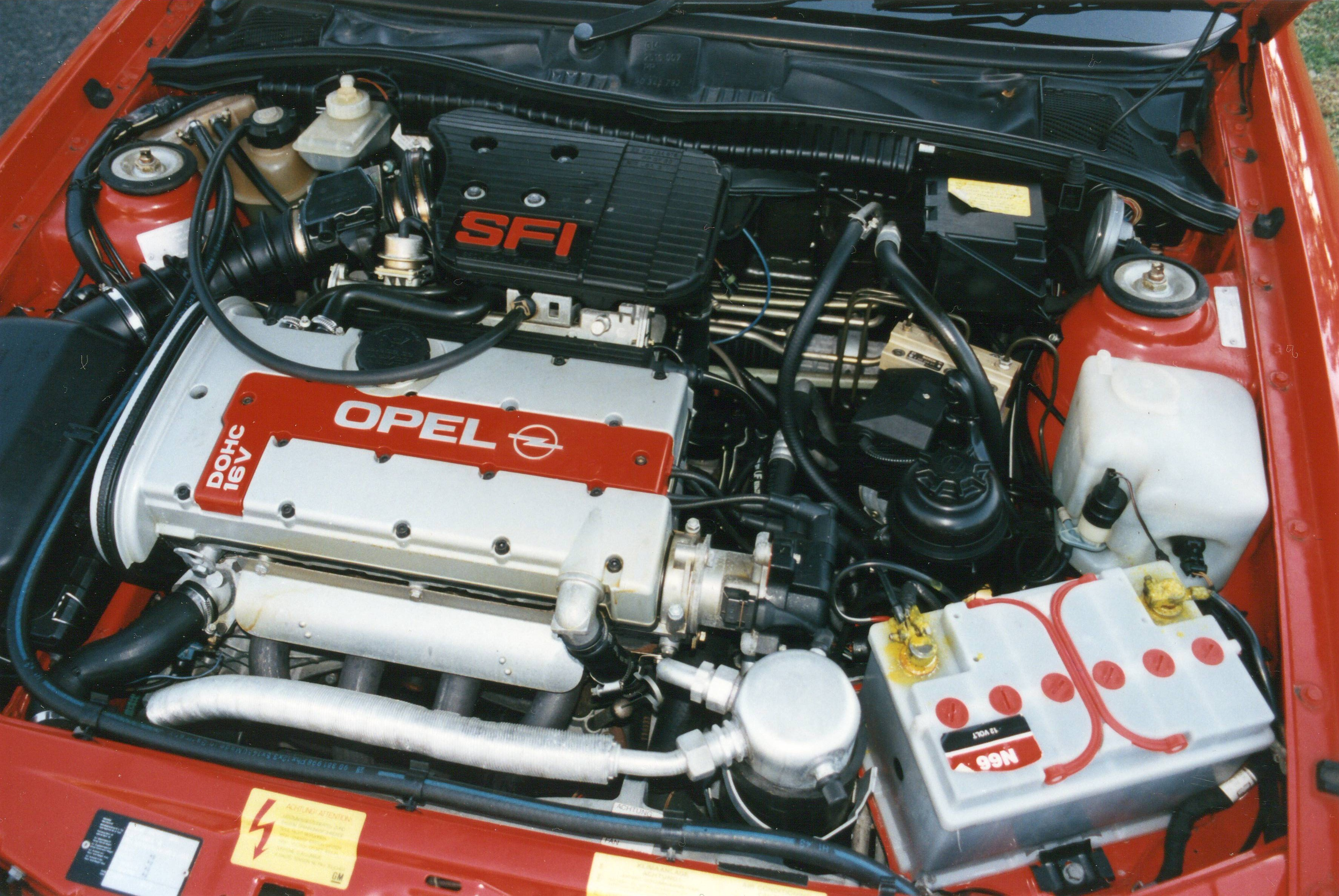 This image is a scan of a 35mm print of the Holden Calibra I bought in 2000